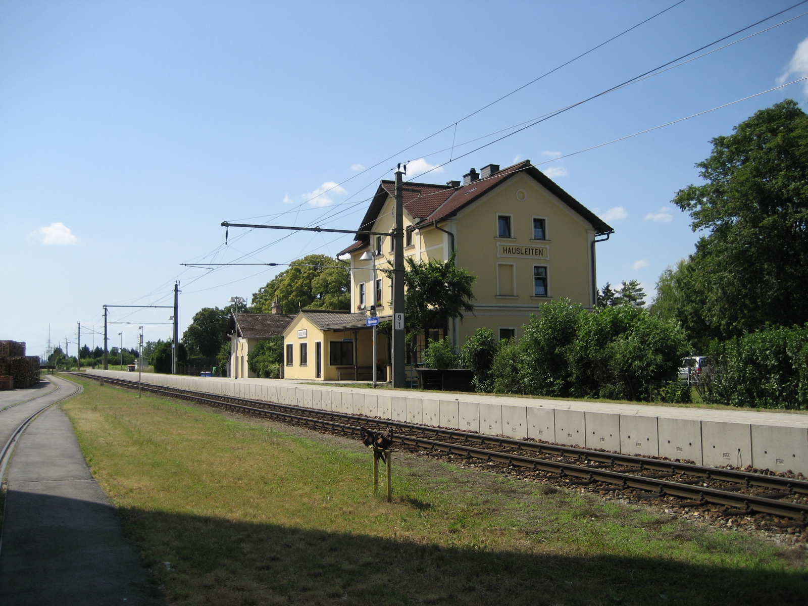 Hausleiten train station, in Lower Austria